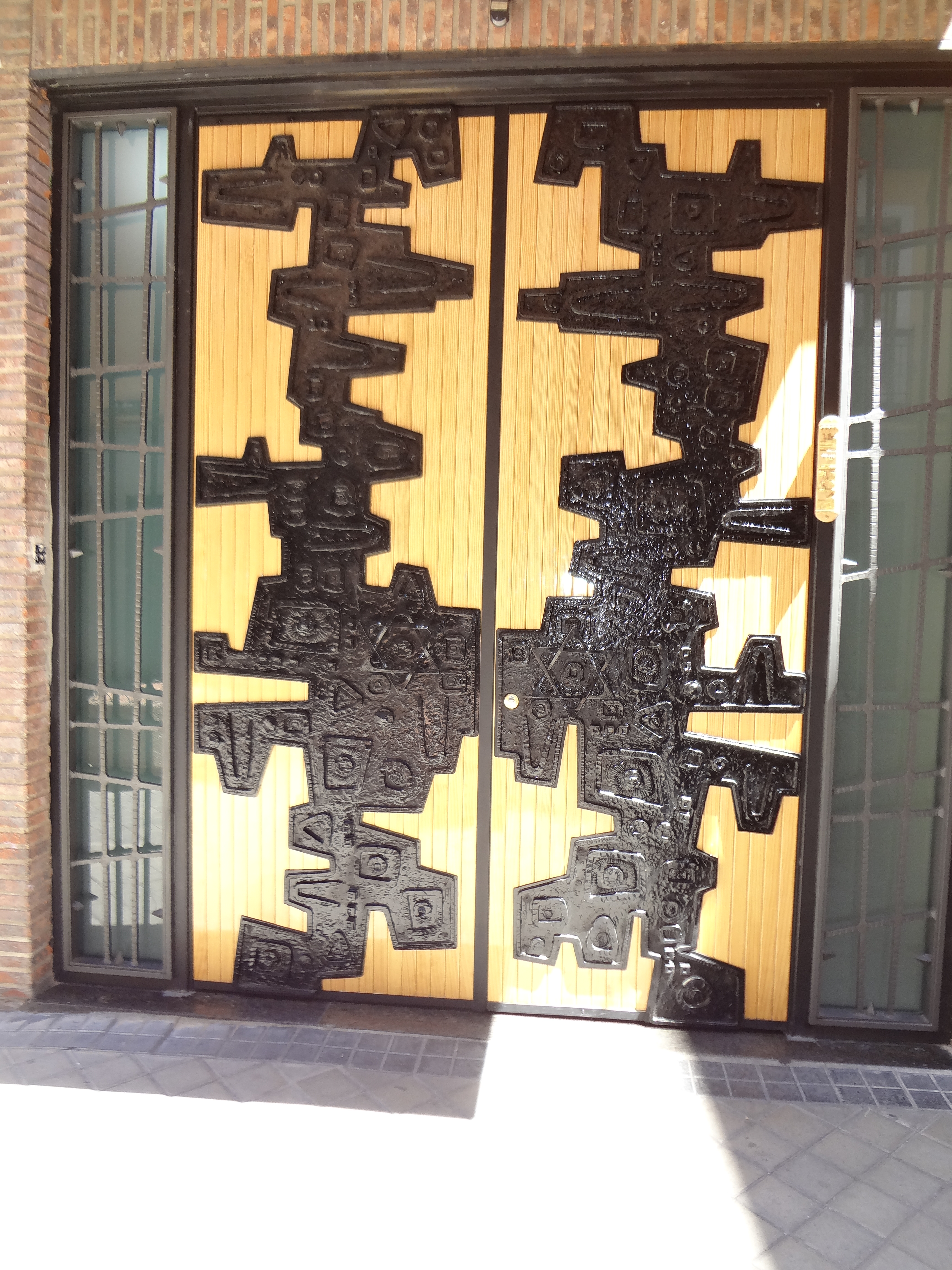 Wooden entrance door to a Jewish Synagogue in Madrid